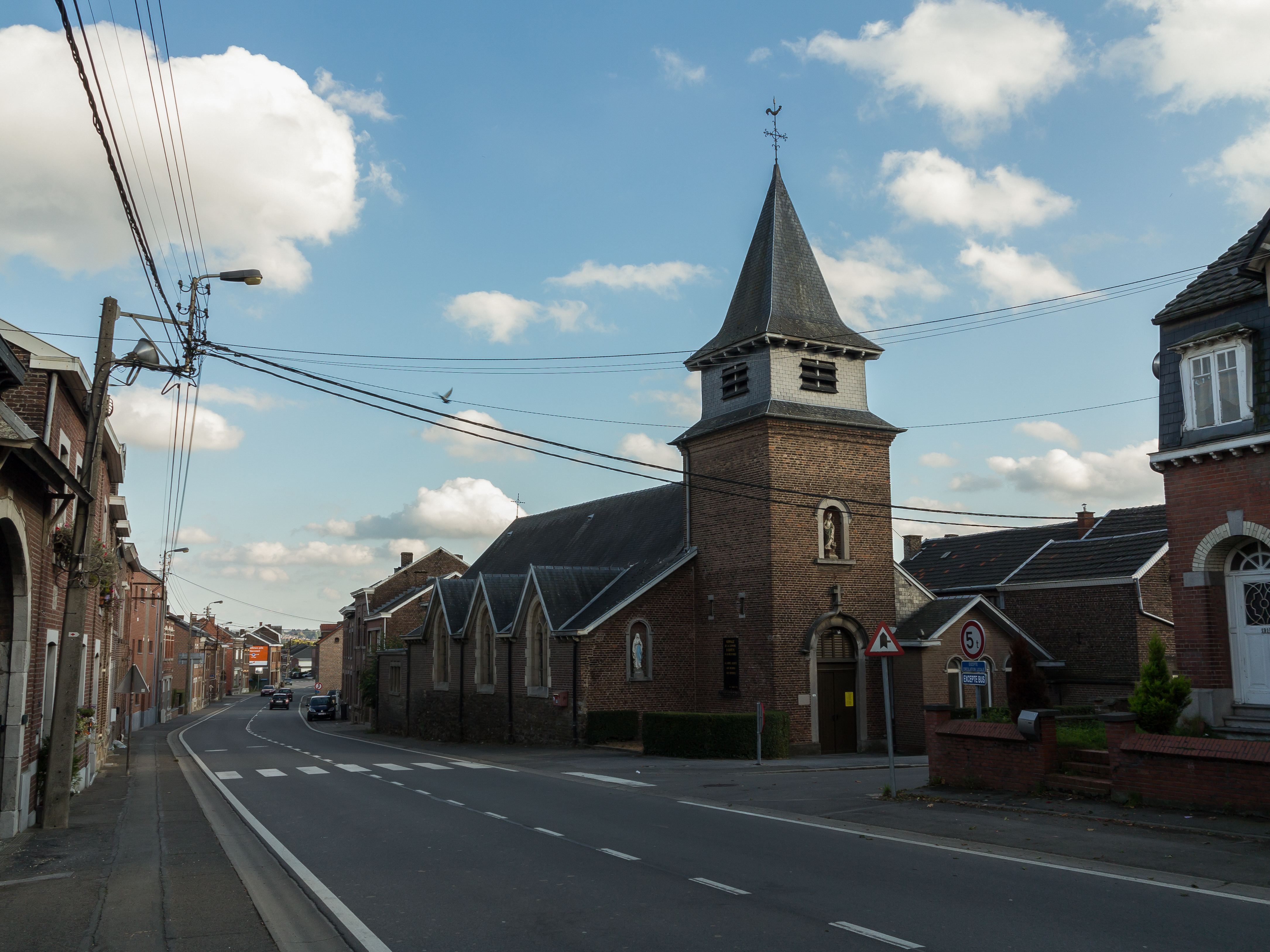 Haccourt, chapel (chapelle Saint Nicolas) in the street